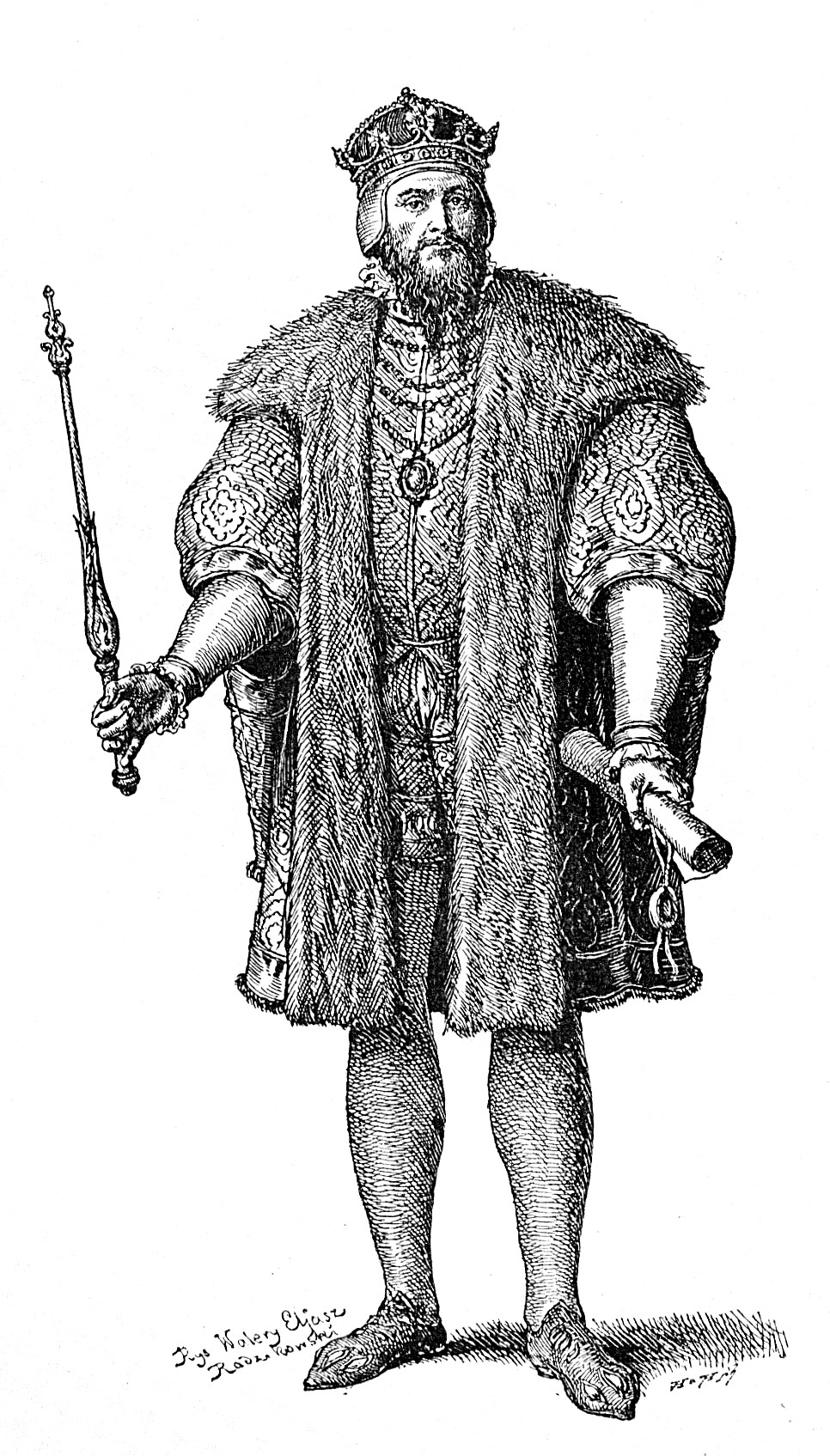 Sigismund Augustus, King of Poland